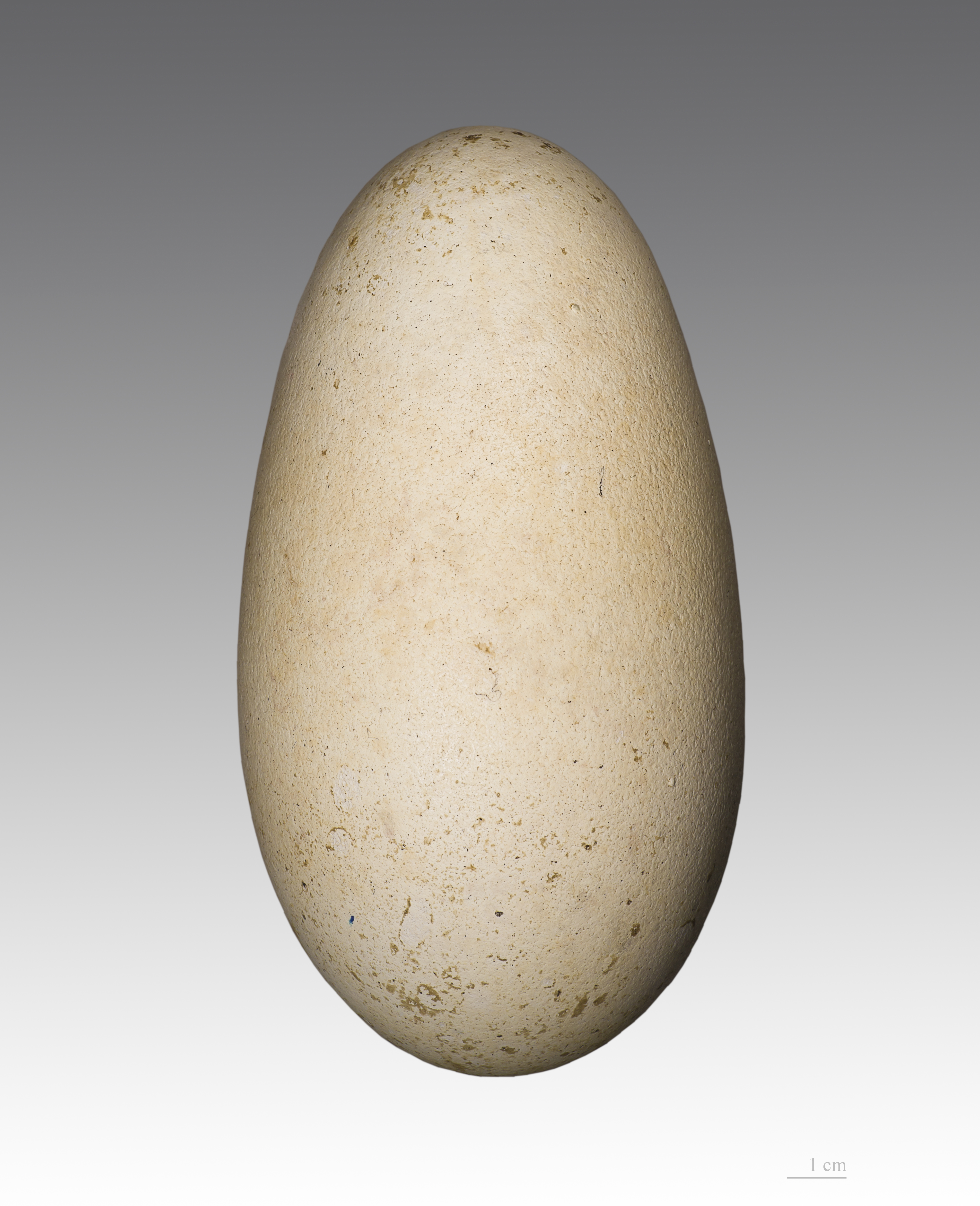 Egg of Wandering Albatross. Collection of Henri Heim de Balsac/Jacques Perrin de Brichambaut. Locality: Île de l'Est, Crozet Islands, France.